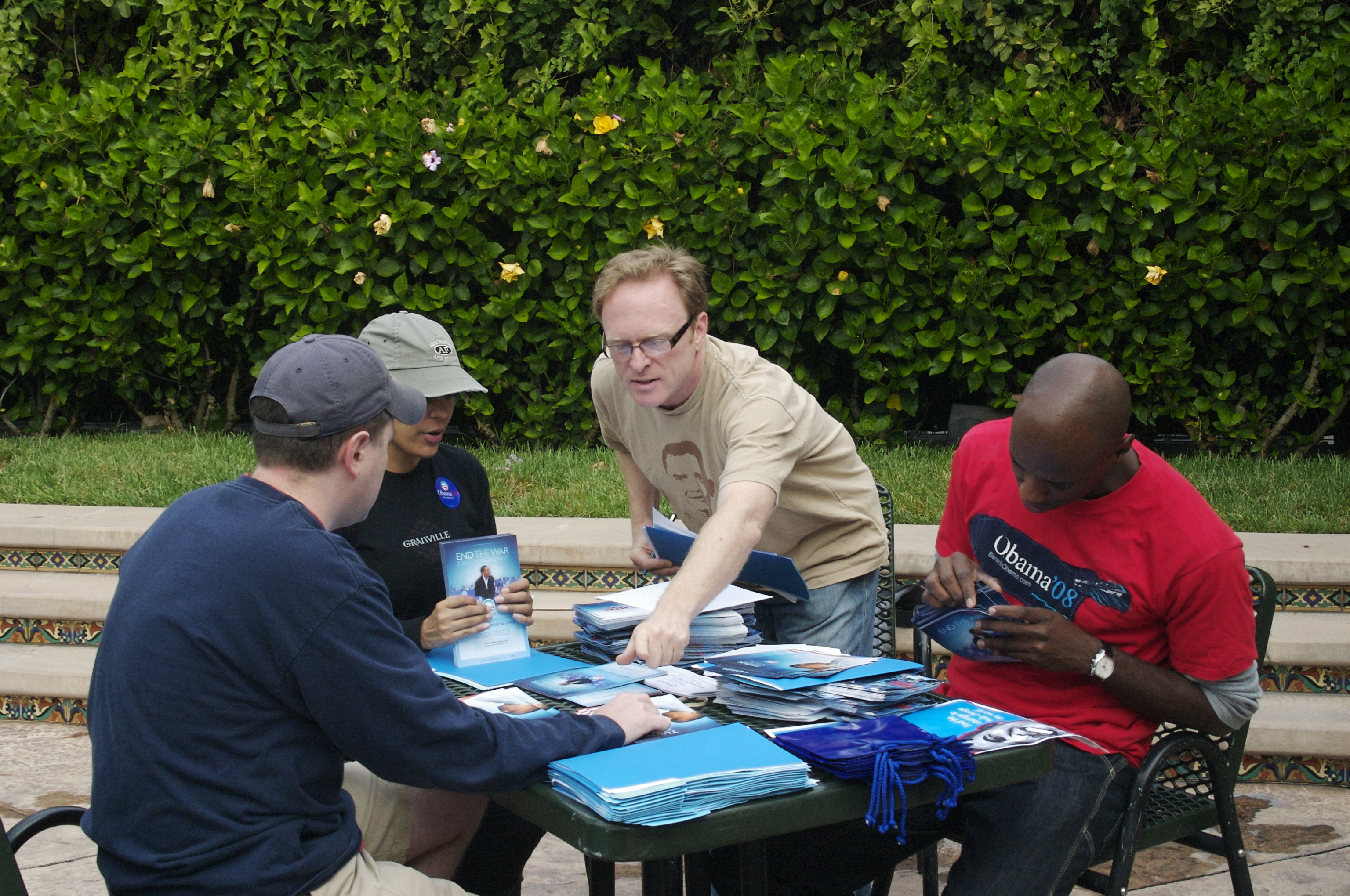 Canvassers organize materials during the 2008 Obama Presidential Campaign.